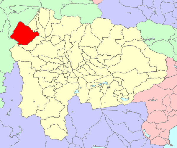 The former town of Hakushū in Yamanashi Prefecture. Merged to form Hokuto on November 1, 2004